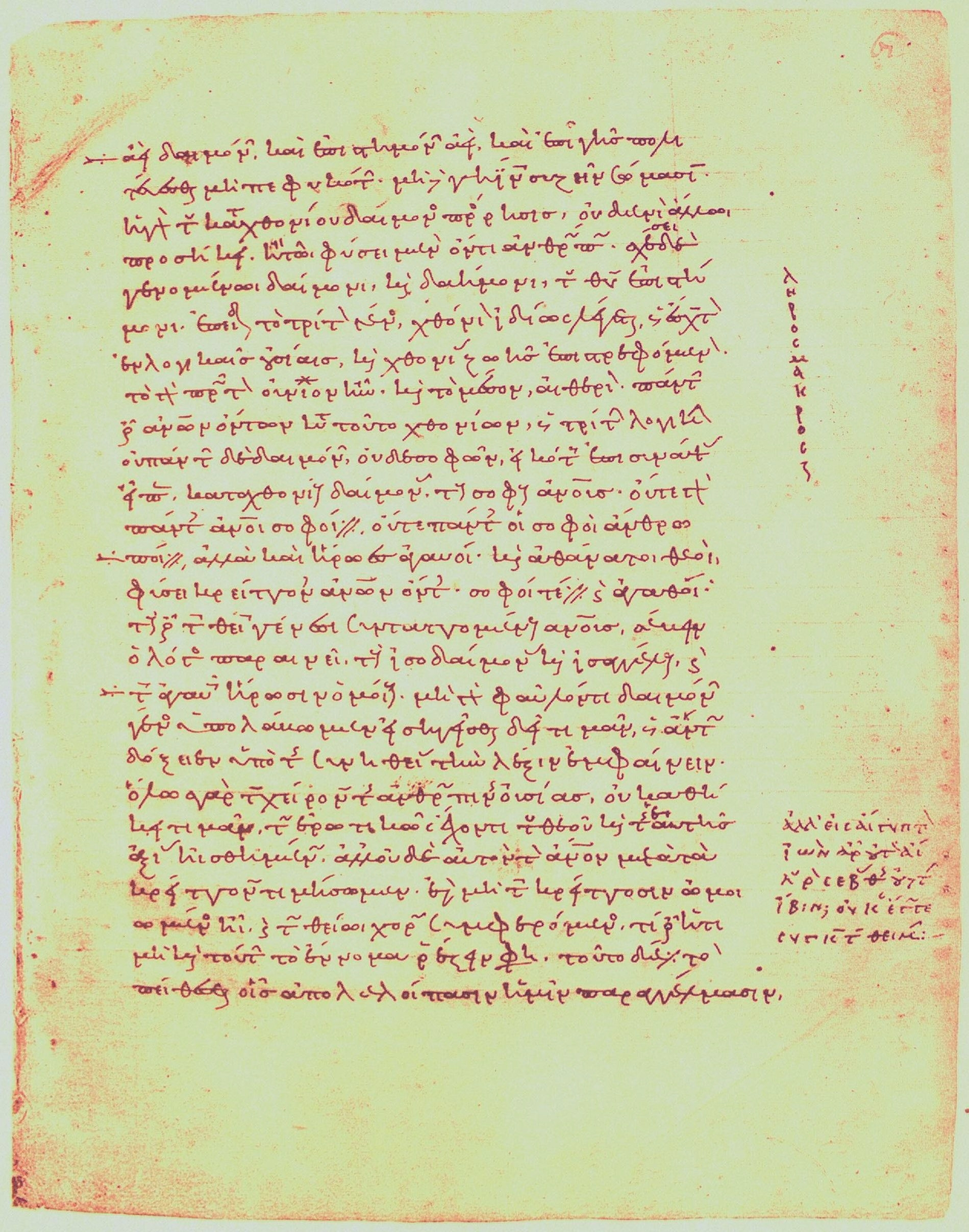 A page of a medieval manuscript containing the Commentary on the „Golden Verses of Pythagoras“. Vienna, Österreichische Nationalbibliothek, Cod. Phil. gr. 314, fol. 61r.